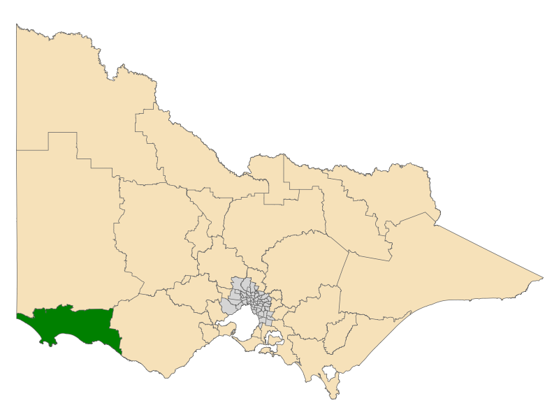 Location of the Electoral District of South-West Coast (dark green) in the state of Victoria, Australia. These boundaries were used for the Victorian state election on 29 November 2014.